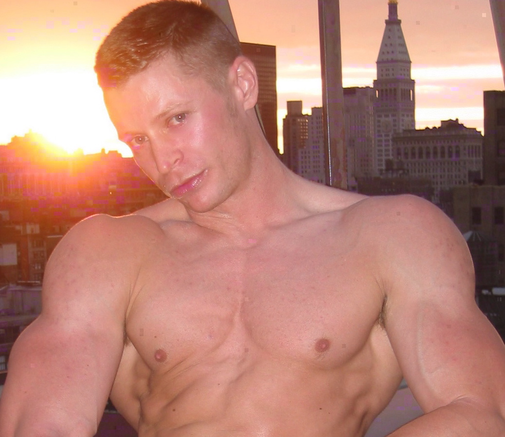 Josh Weston NYC Skyline